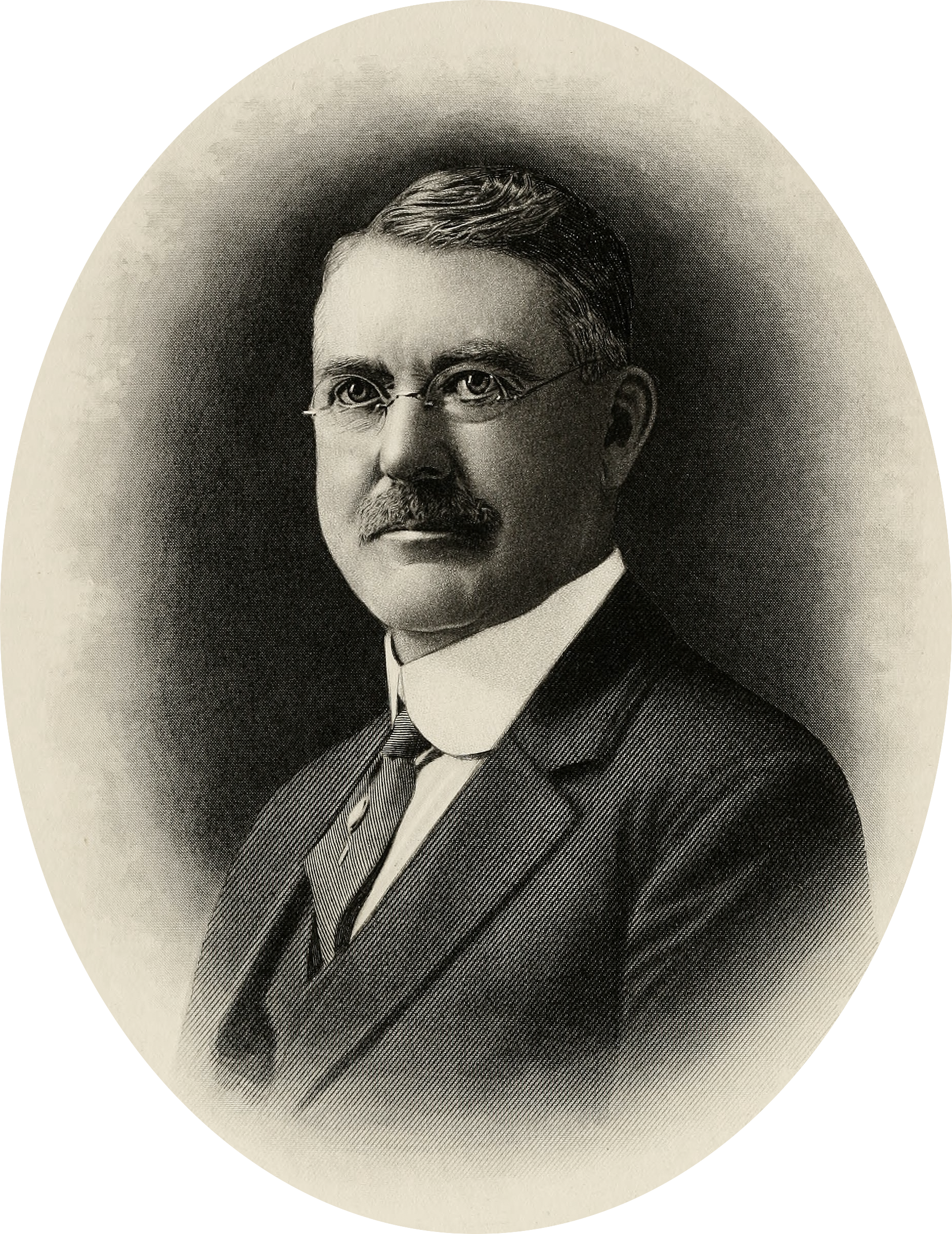 Engraved portrait of George Perkins Bissell Alderman, prominent architect in New England and most notably Holyoke, Massachusetts, where he designed many of the Victorian residences, public buildings, and factories there